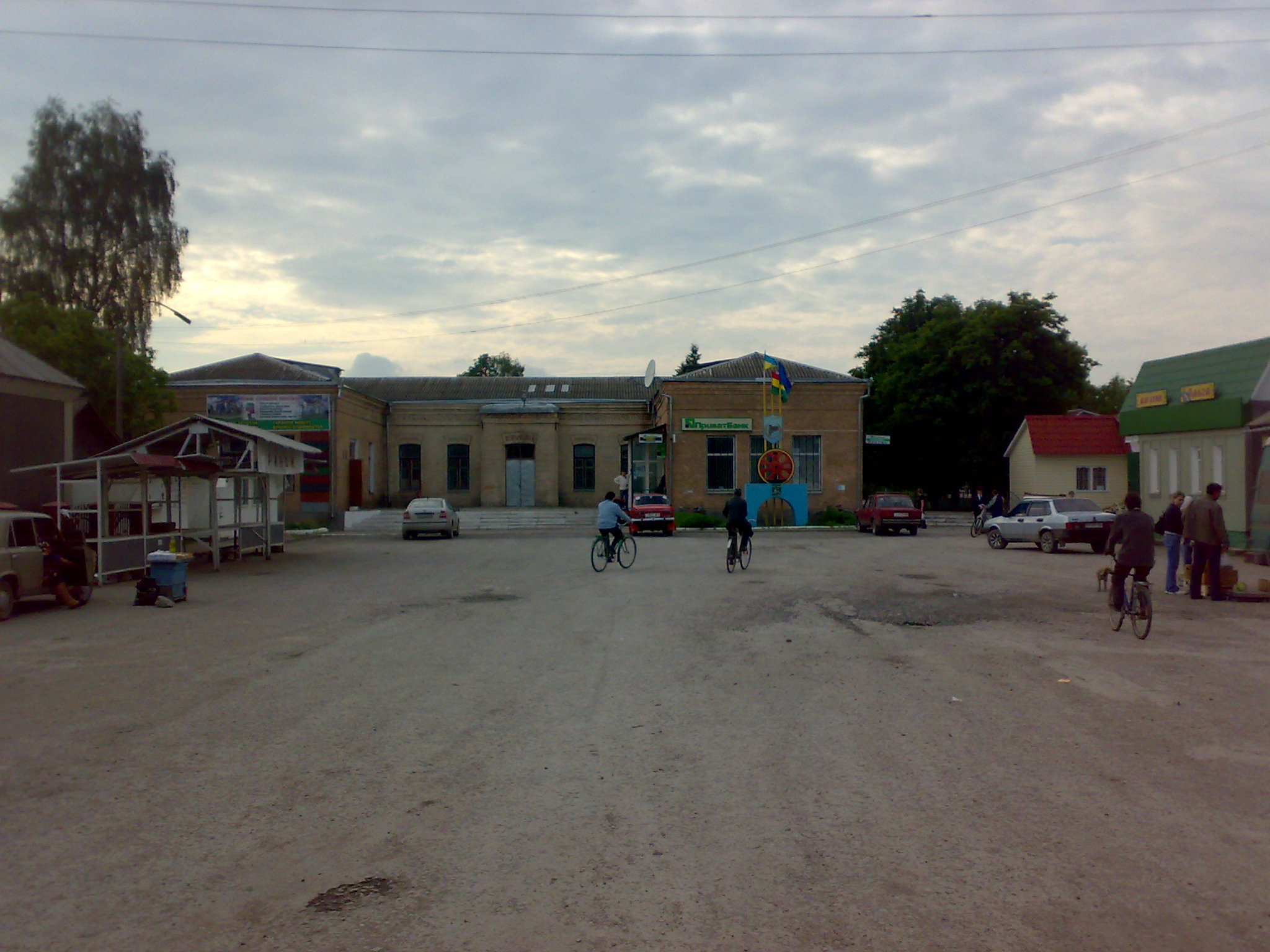 Square in front of trail station in the urban-type-settlement Dunaivtsi